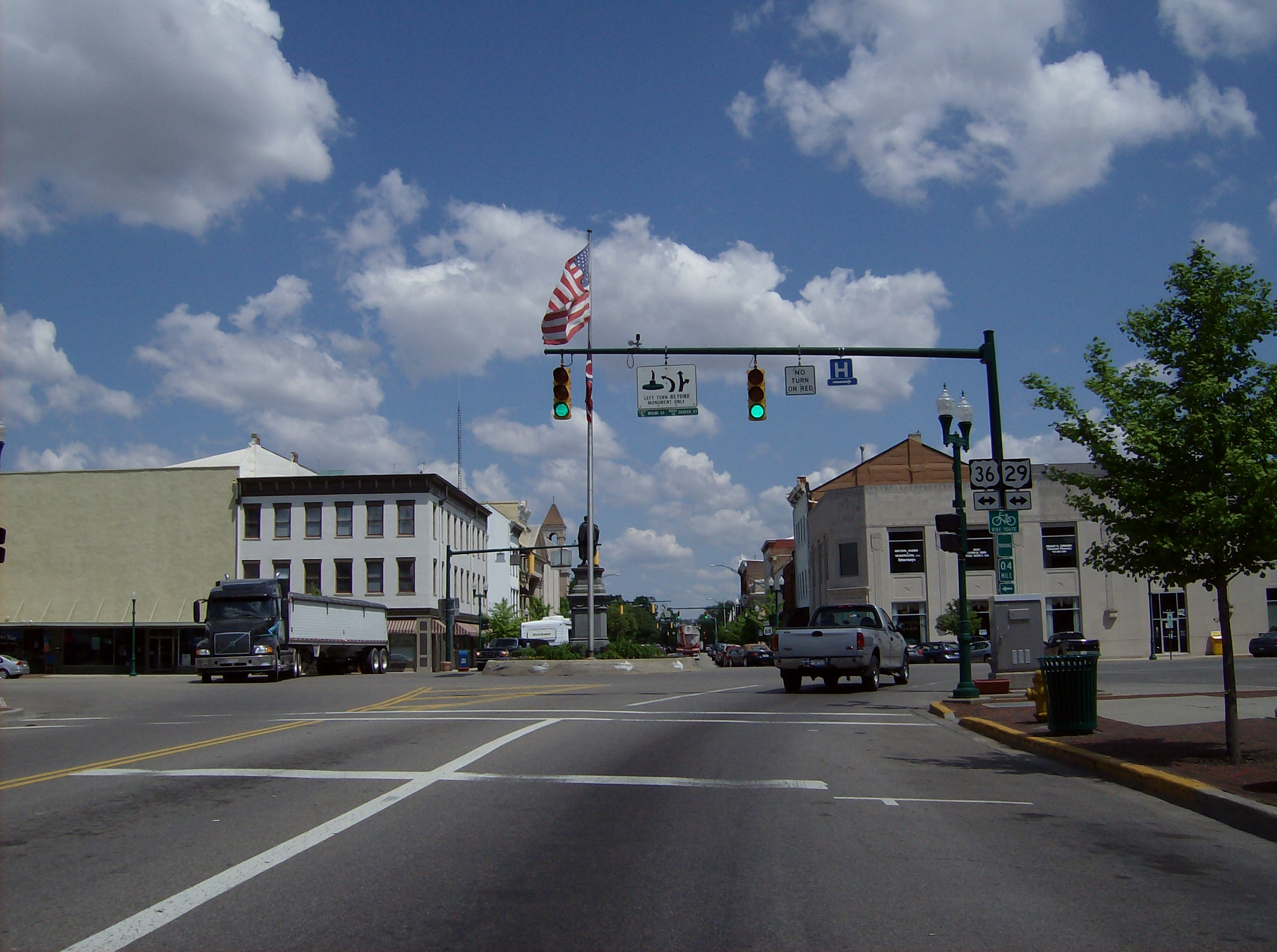 View of the roundabout at the intersection of U.S. Routes 36 and 68 in downtown Urbana, Ohio, United States. Picture taken from U.S. Route 68, approaching the roundabout from the south. This roundabout is the center of the Urbana Monument Square Historic District, which is listed on the National Register of Historic Places.